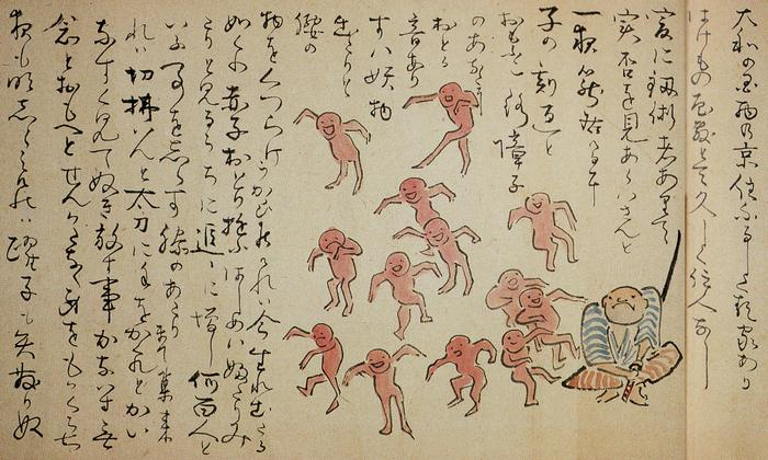 Akago